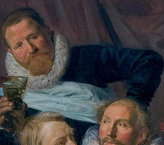 Cornelis Boudewijns, detail of Officers of the St. George Civic Guard, Haarlem